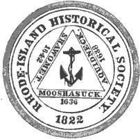 This is my copy of the Rhode Island Historic Society Seal from: Proceedings of the Rhode Island Historical Society By Rhode Island Historical Society, Rhode Island Historical Society Published by Rhode Island Historical Society., 1887 [1] (accessed on Google Book Search on January 5, 2008)